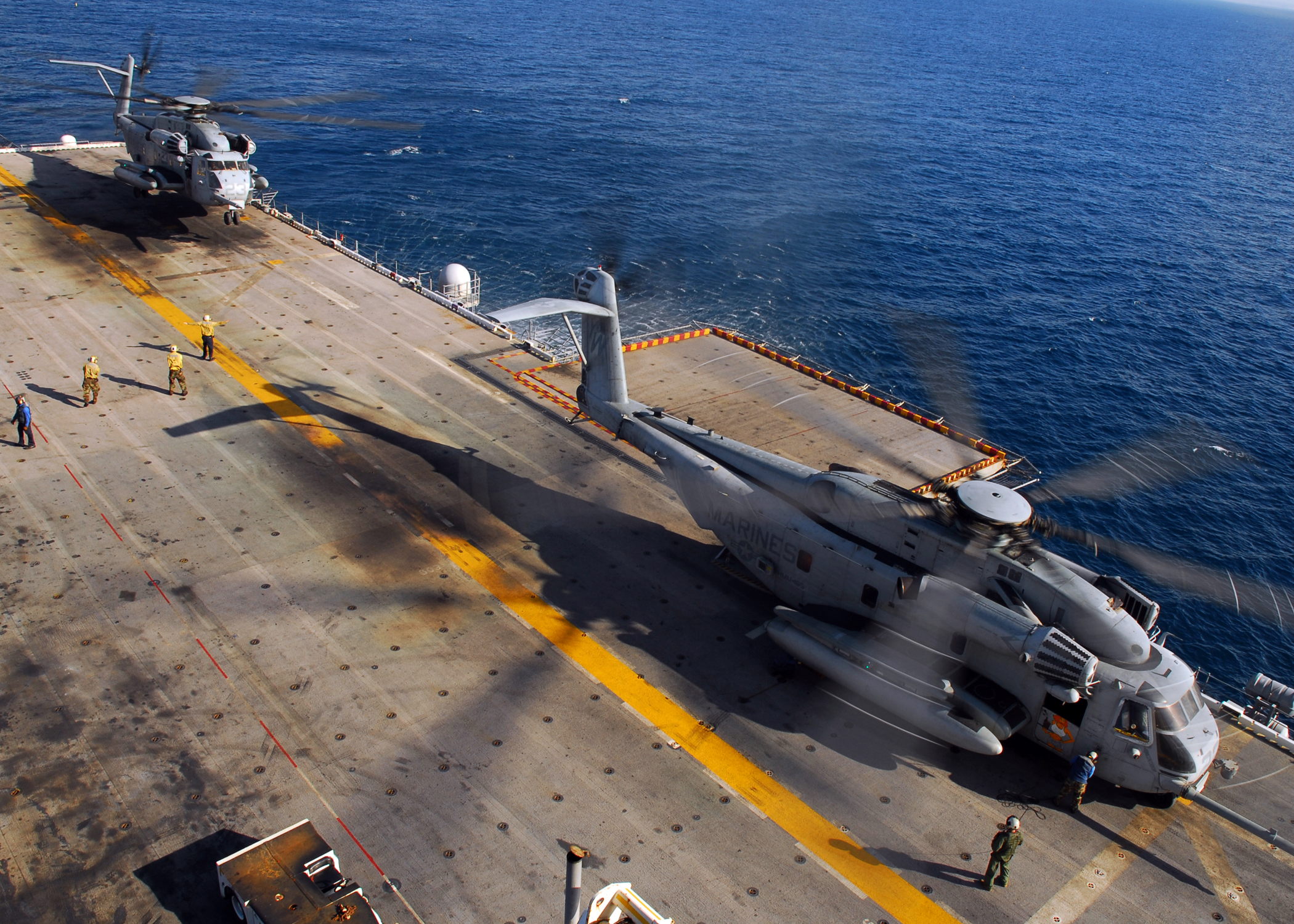 081103-N-2183K-059 PACIFIC OCEAN (Nov. 3, 2008) A CH-53E Super Stallion helicopter descends to the flight deck during operations to disembark Marines after a scheduled six-month deployment aboard the amphibious assault ship USS Peleliu (LHA 5). Peleliu is the flagship of the Peleliu Expeditionary Strike Group. (U.S. Navy photo by Mass Communication Specialist 2nd Class Dustin Kelling/Released)